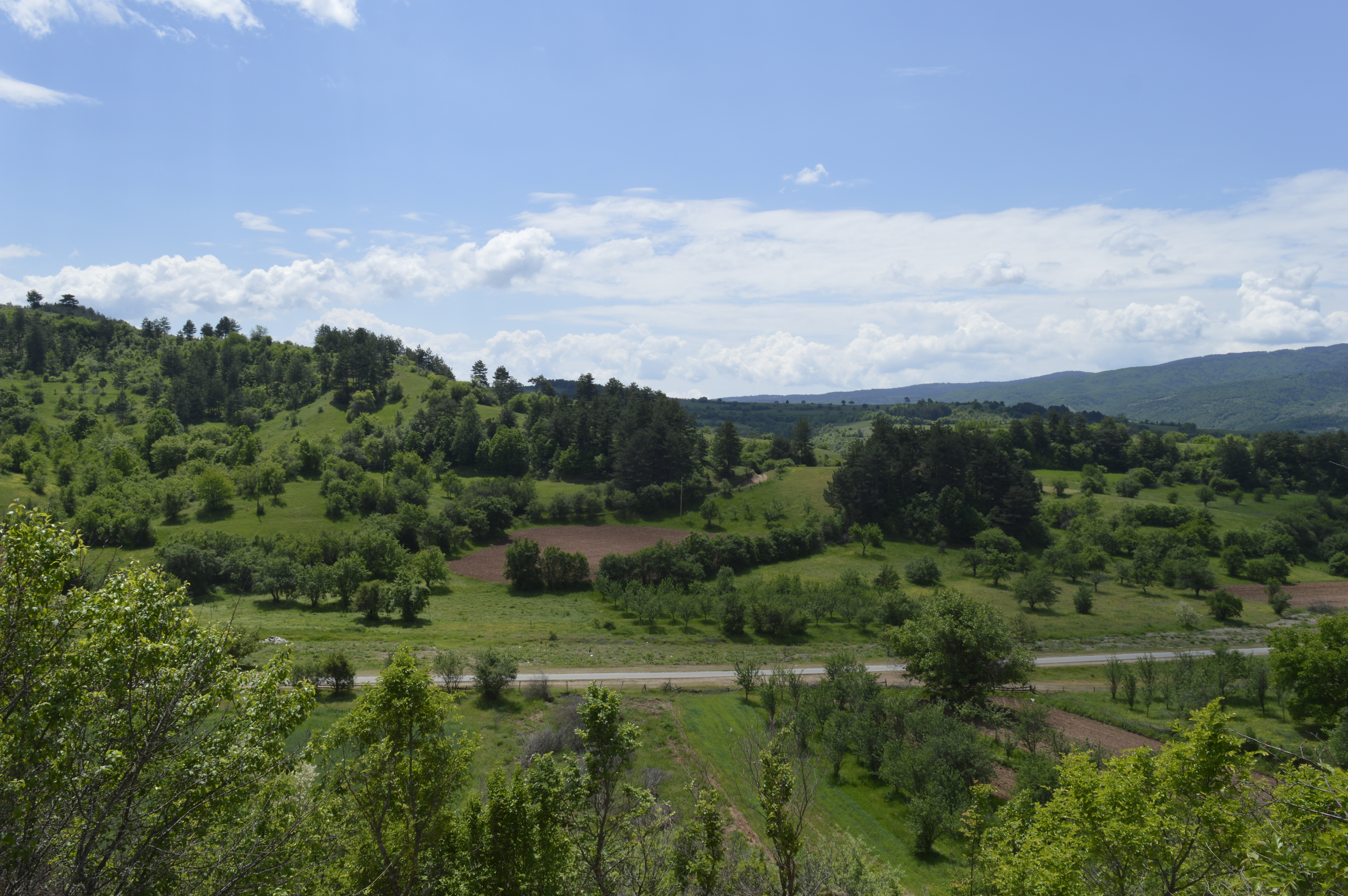 Local field near village Pančarevo